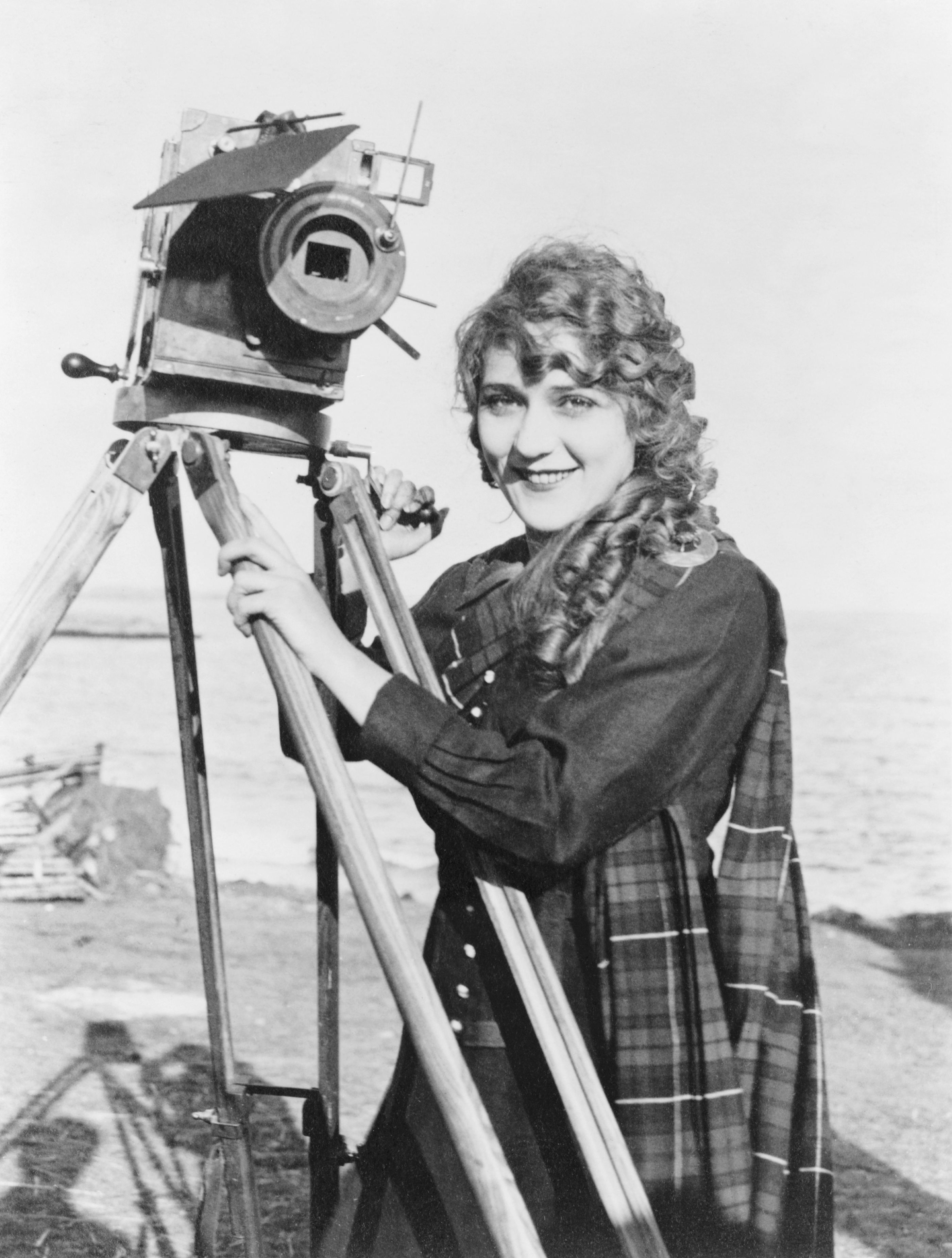 Mary Pickford, half-length portrait, standing, facing slightly left, with motion picture camera, on beach (restored version of Mary Pickford with Camera.jpg: dust and scratches removed, some sharpening, curves